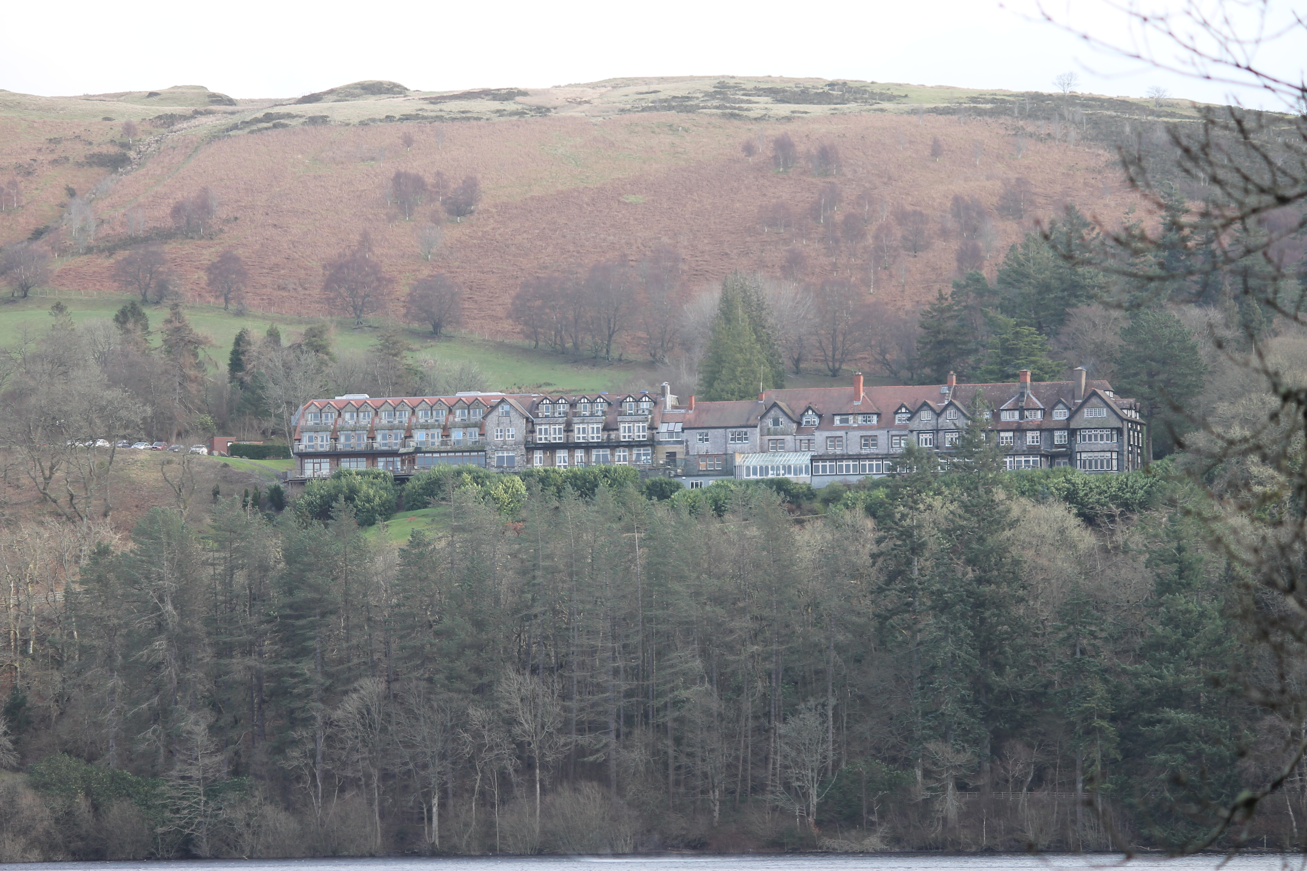 Lake Fyrnwy (Anglicised to 'Vyrnwy). This was the first of many dams built in Wales to supply water to England, with no charge. Built between 1881 and 1888, where once stood a thriving Welsh village.